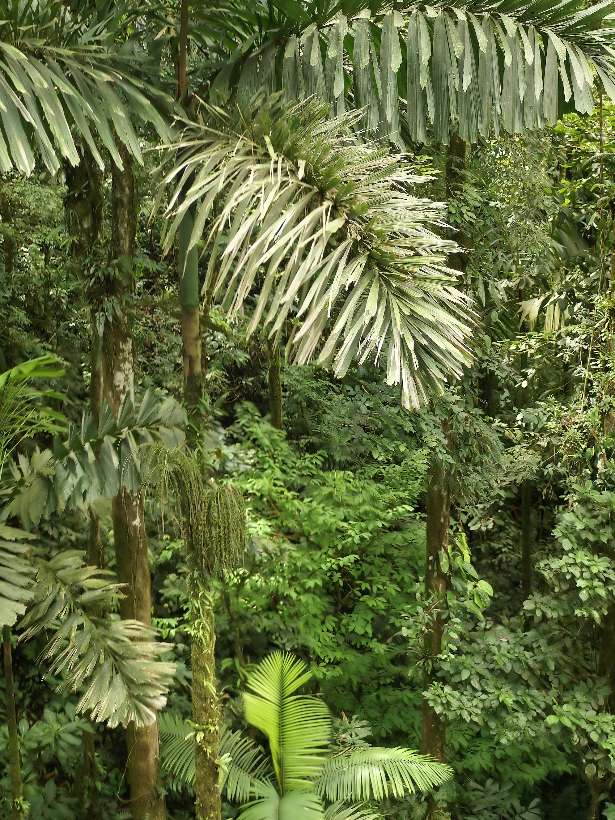 Walking Palm at Puentes Colgantes near Arenal Volcano, Costa Rica